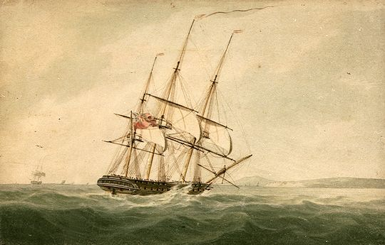 An English Frigate - anonymous watercolor